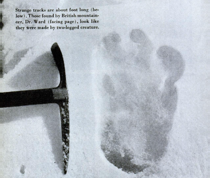 Photograph of an alleged yeti footprint found by Michael Ward. Photograph was taken at Menlung glacier on the Everest expedition by Eric Shipton in 1951.